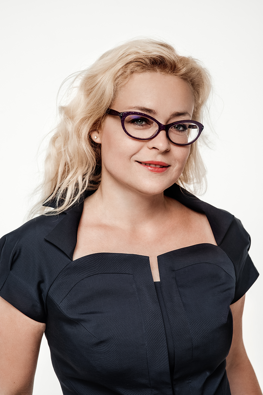 Golda Vynogradskaya created unique cultural diplomacy project and talks about Ukraine to the world in the language of fashion. The shows of Ukrainian designers were successfully shown in Canada, USA, Tunisia, UAE, Israel, Poland.